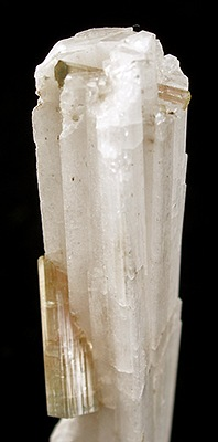 Hambergite Locality: Hyakule, Sankhuwasabha District (Sankhuwa Sahba), Kosi Zone, Nepal (Locality at ) Size: small cabinet, 7.5 x 2.0 x 1.2 cm Hambergite with Toumaline Hambergite is a rare accessory mineral in gem pegmatites. This elongated pearlescent and translucent, white crystal is doubly-terminated and also hosts a 1.4 cm long, elbaite crystal (itself doubly-terminated!). hambergite is a beryllium, borate and sharp elongate crystals are known from only a few localities. For Nepal, this specimen is off the charts, really good, rivalling material from Pakistan and Tajikistan in quality . The elbaite is ditstinctly, however, from this mine . Ex. Paul Stahl Collection